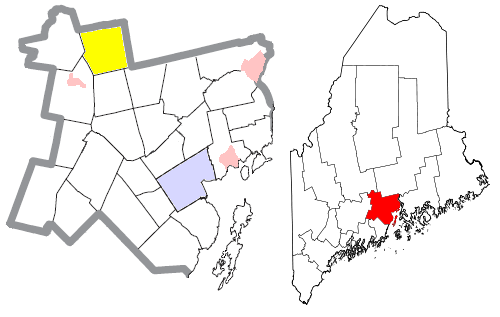 Map of the divisions of Waldo County, Maine, United States, with the town of Troy highlighted in yellow. The city of Belfast is light blue; other towns are white; and pink areas are census-designated places within towns.